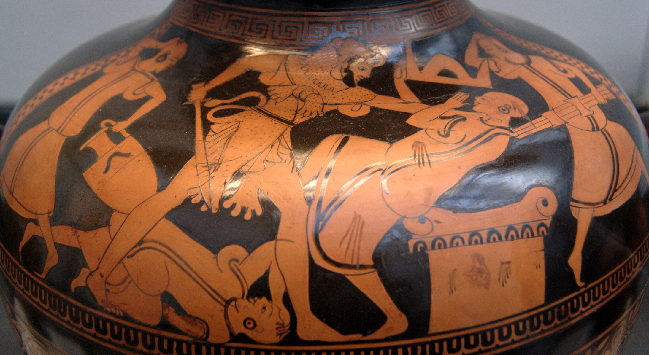 Heracles killing Busiris and suitors. Attic red-figure kalpis (hydria), ca 480 BC. From Vulci.